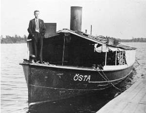 S/S Östa 1920 This is an image of the protected Swedish ship S/S Östa, with call sign SJFE .